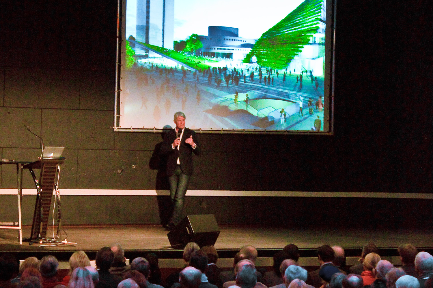 German architect Christoph Ingenhoven presenting his idea of new buildung for Gustaf-Gründgens-Platz (Düsseldorf, Germany) which includes a vertical garden. Architectural competition organized by the city of Düsseldorf. The foto was taken at a show in the Henkel-Saal. In the background: skyscraper "Dreischeibenhaus" (architekt: Helmut Hentrich) and public theater "Schauspielhaus" (architekt: Bernhard Pfau).